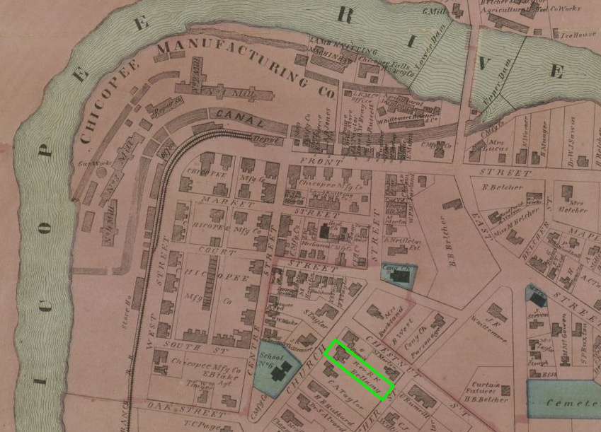 Map of Chicopee Falls, Massachusetts; home of writer Edward Bellamy highlighted in green.